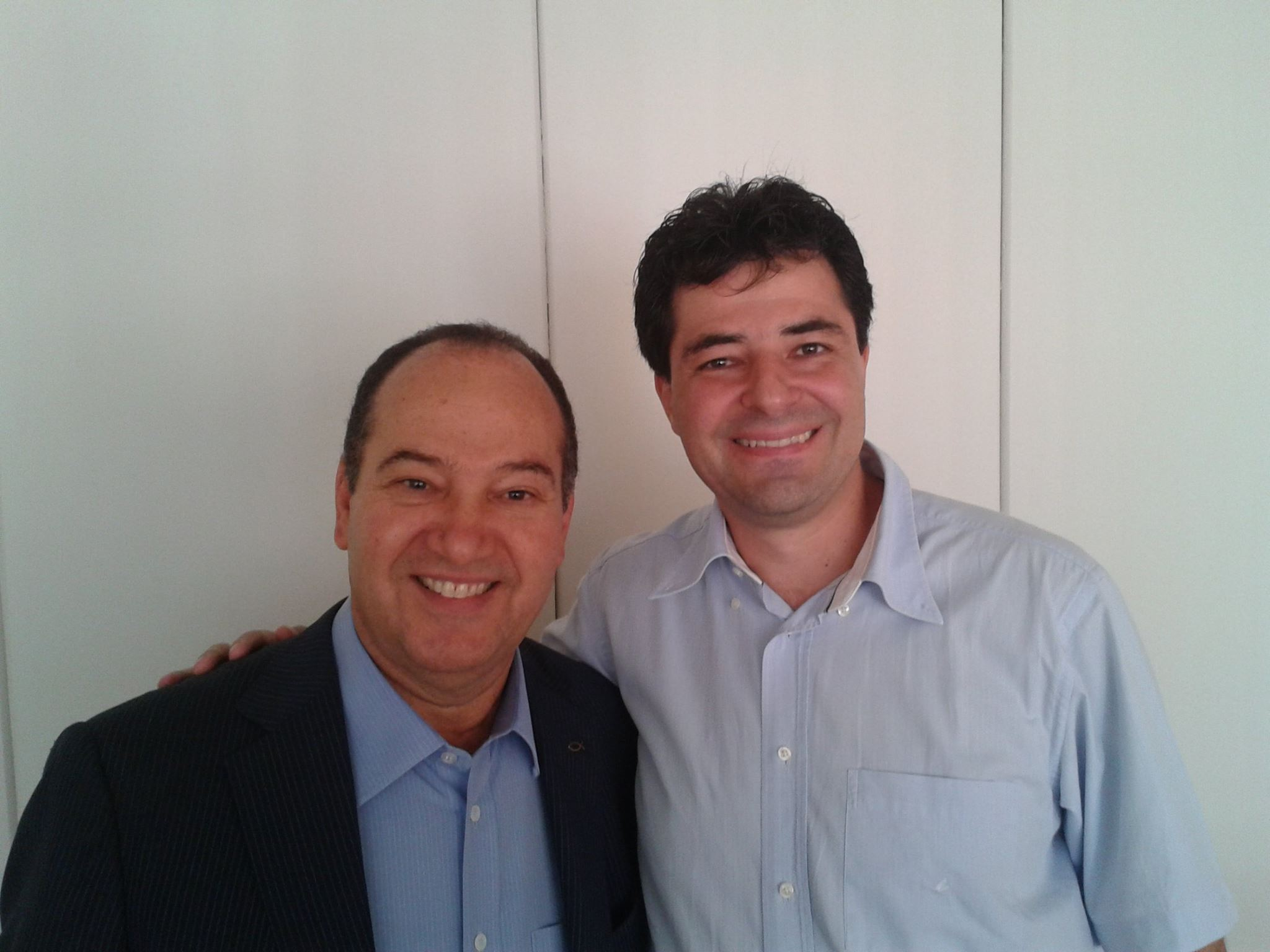 Pastor Everaldo Dias Pereira.